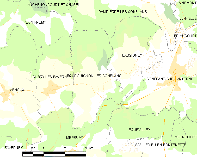 Map of French municipality